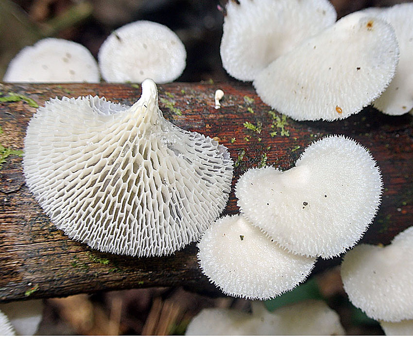 A Honeycomb Mushroom at the Sacha Lodge Reserve, eastern Ecuador. Said to be one of the few species collected by natives for food. In context at